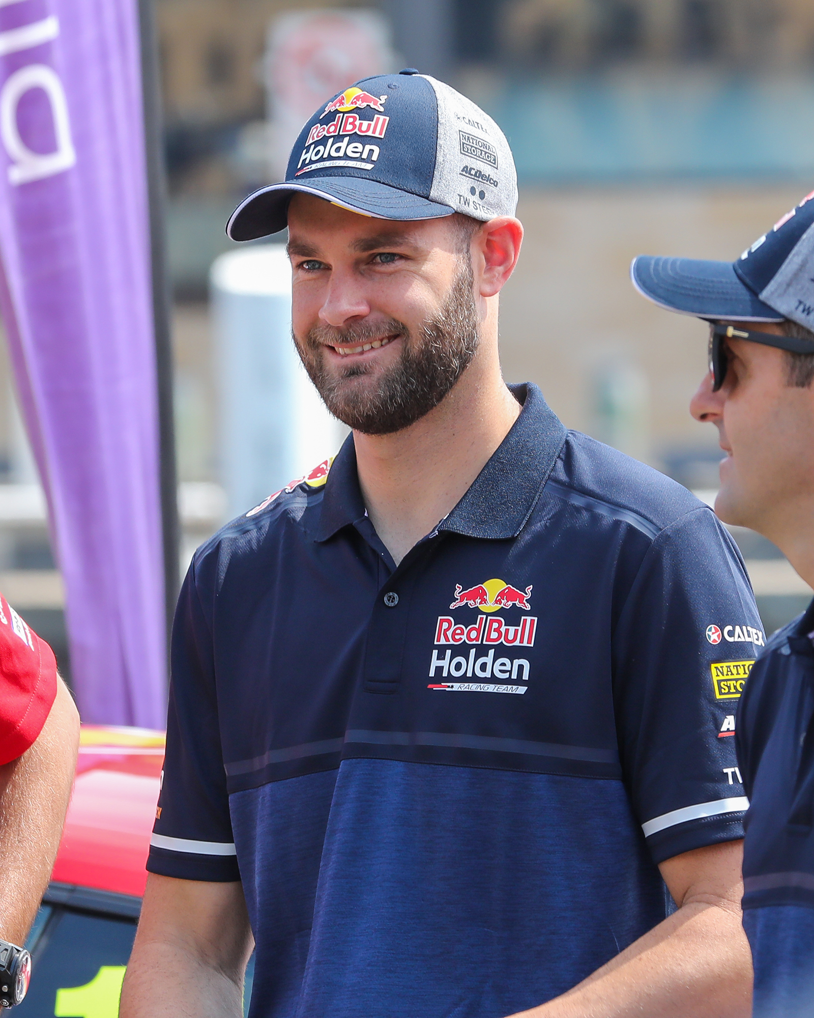 Shane van Gisbergen at the 2020 Supercars season launch